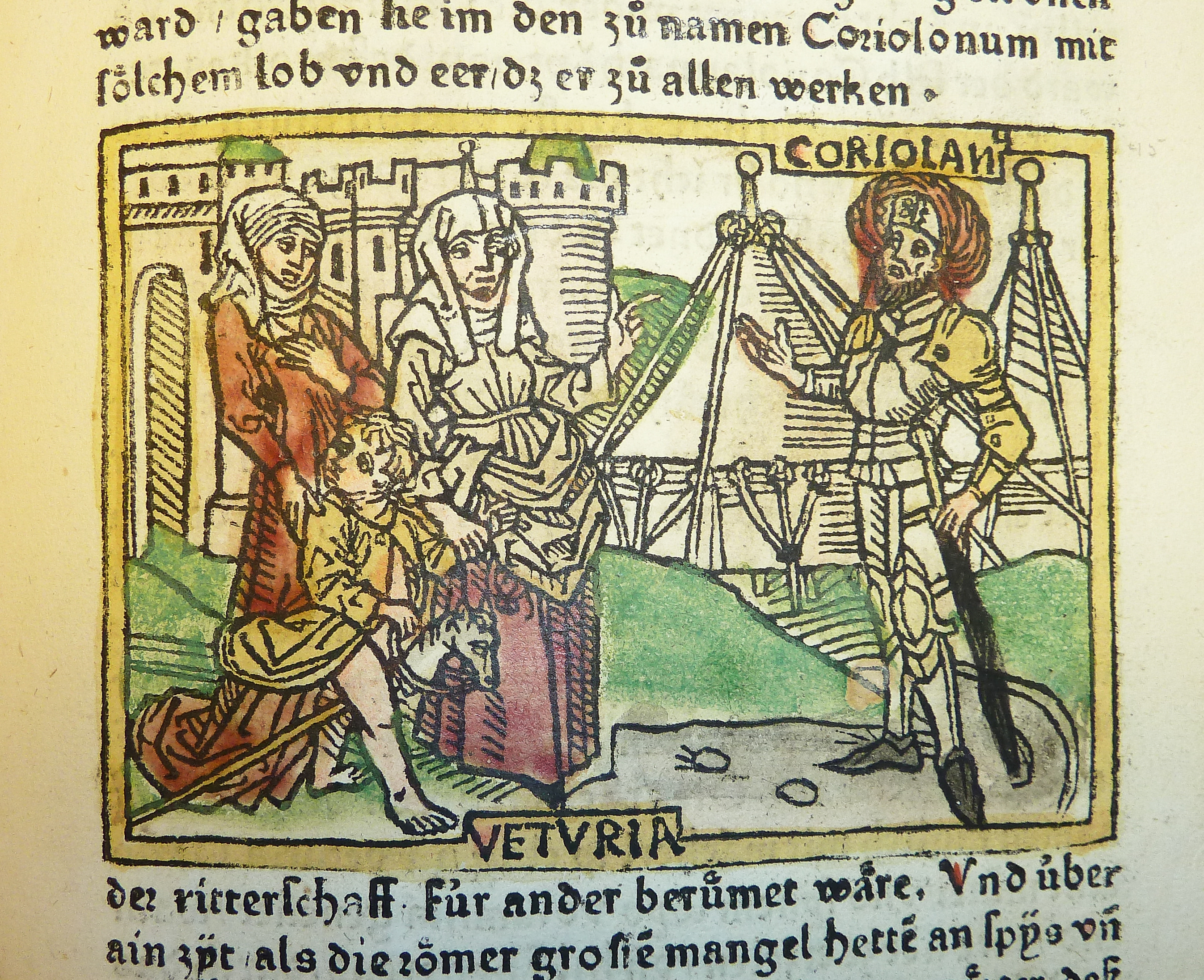 Woodcut illustration (leaf [i]7r, f. lxxxx) of Veturia and Volumnia confronting Coriolanus, hand-colored in red, green, yellow and black, from an incunable German translation by Heinrich Steinhöwel of Giovanni Boccaccio's De mulieribus claris, printed by Johannes Zainer at Ulm ca. 1474 (cf. ISTC ib00720000). One of 76 woodcut illustrations (1 on leaf [e]8v dated 1473), each 80 x 110 mm., depicting scenes from the life of the women chronicled (for a full list of subjects, cf. W.L. Schreiber, Handbuch der Holz- und Metallschnitte des XV. Jahrhunderts (Nendeln: Kraus Reprints, 1969), no. 3506). "Pour la première moitie le nom se trouve inscrit à côte de la tête de chaque femme, pour le reste il es ajouté entre les deux réglettes. Il n'y en a que trois, qui n'ont qu'un seul trait carré."--Schreiber. Established form: Zainer, Johannes, ‡d d. 1541?. Established form: Volumnia (Legendary character) Established form: Coriolanus, Cnaeus Marcius. Penn Libraries call number: Inc B-720 All images from this book Penn Libraries catalog record